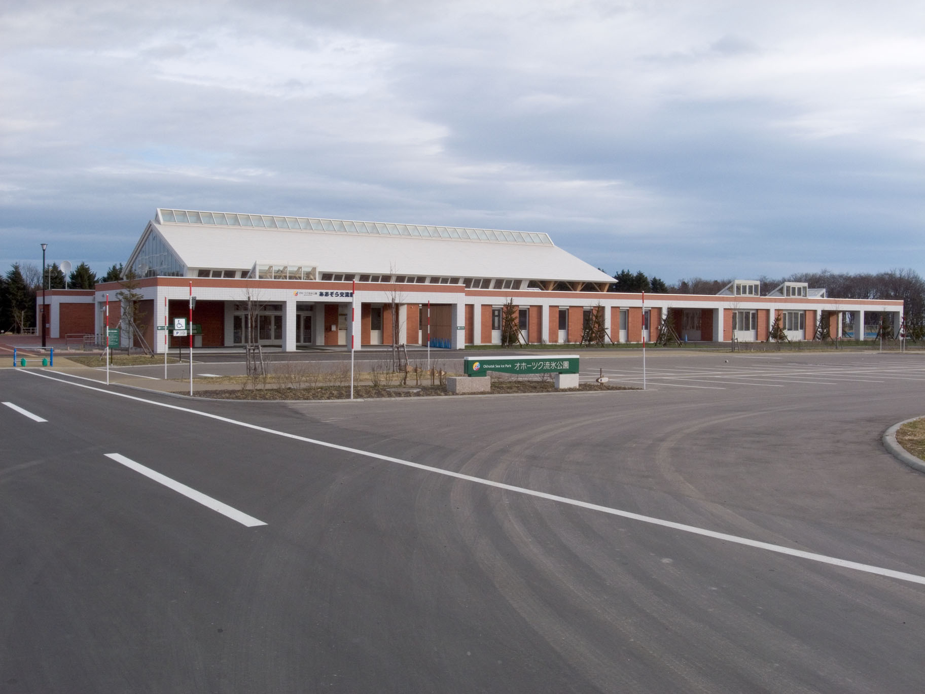 Okhotsuk Drift Ice Park, Mombetsu, Hokkaido, Japan